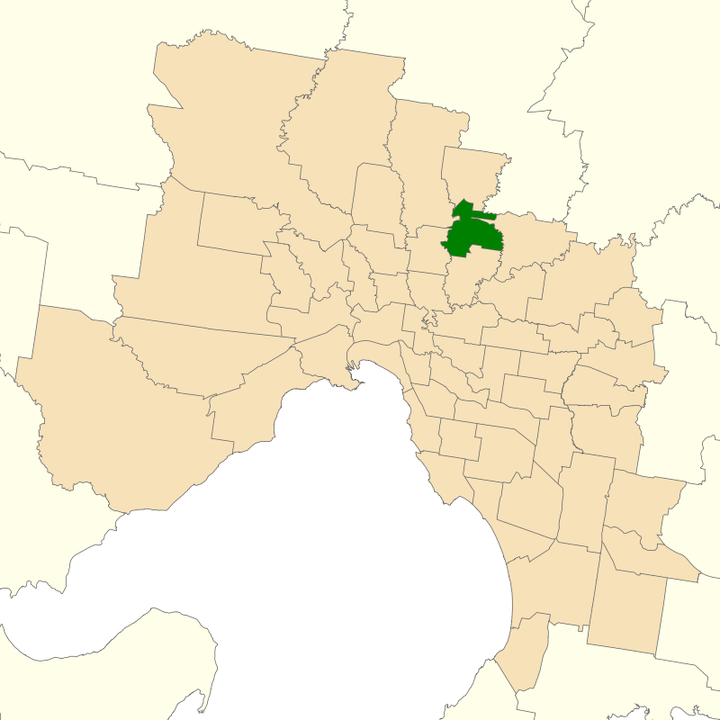 Location of the Victorian electoral district of Bundoora (dark green) in the Greater Melbourne area.